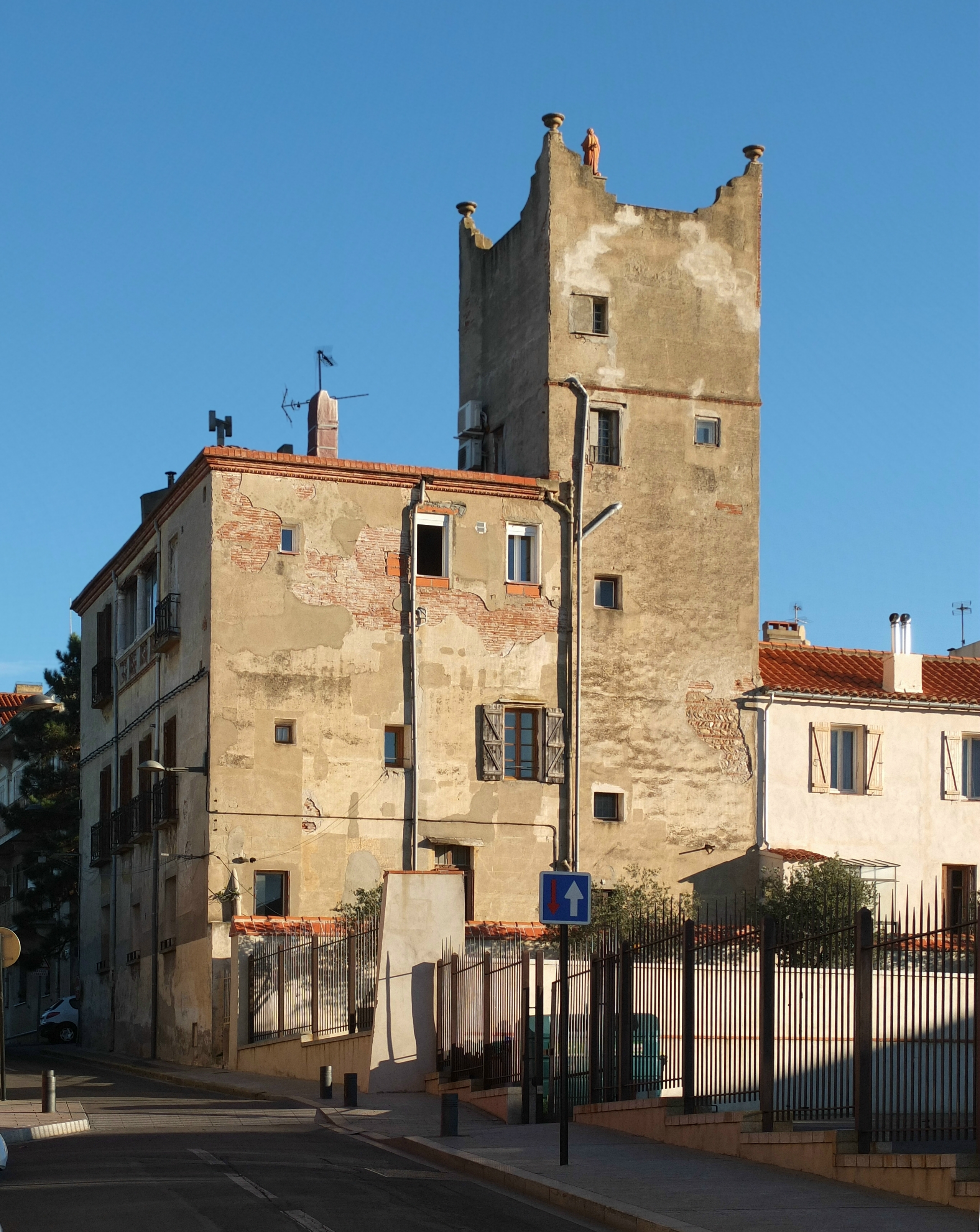 Couvent des Carmes Déchaux Saint-Joseph in Perpignan, France (view northwest). Ministère de la Culture (France), Base Mémoire: IVR91_20016603166NUCA